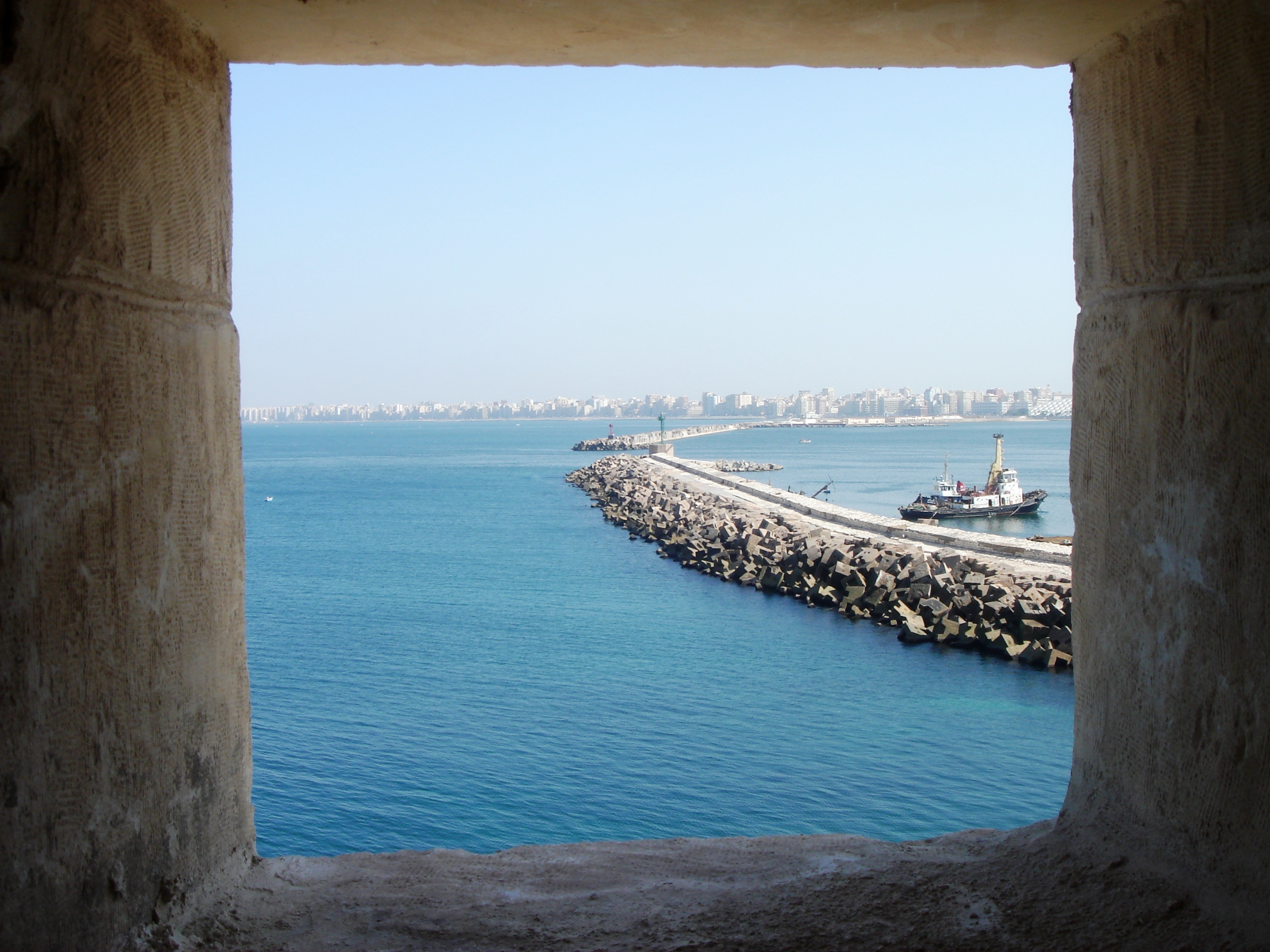 A picture of modern Alexandria shot from on of the windows of Quitbay's Citadel to the west of the City. Author: Ahmed Dokmak. February, 2006.